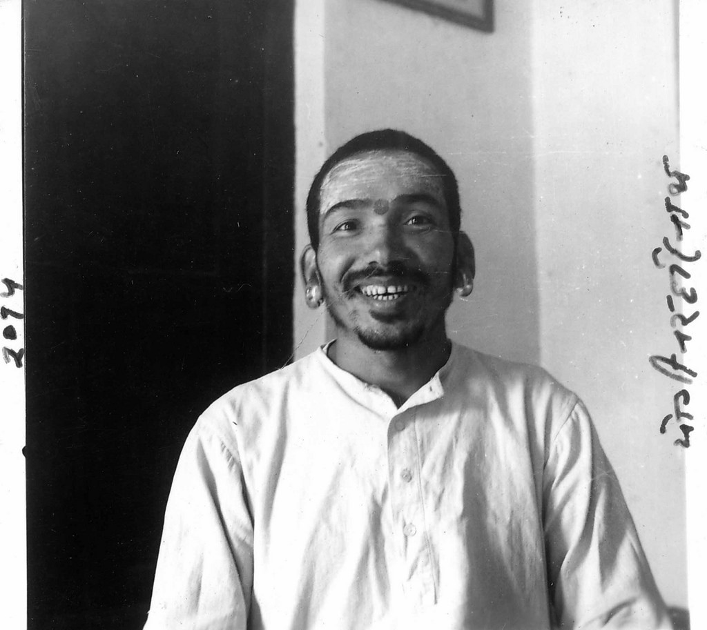 Yogi Naraharinath (AD 1915-2003); date written on picture 2015 B.S. which will be 1958/59 AD; Yogi Naraharinath is known Sanskrit and Nepali writer, historian, litterateur and scholar of Gorakhnath Sampradaya